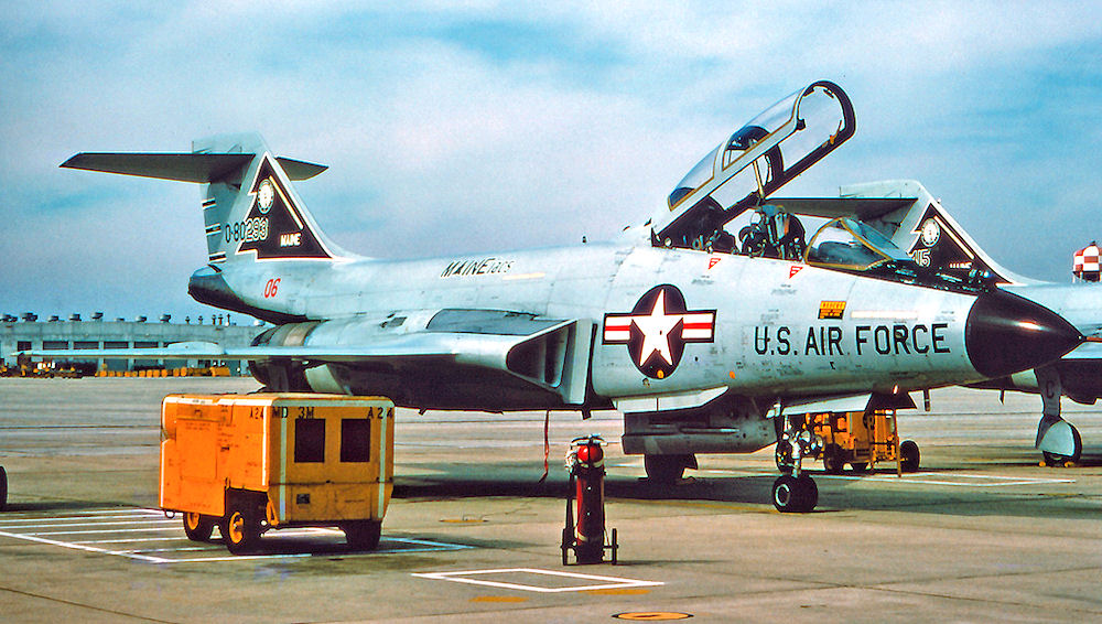 132d Fighter-Interceptor Squadron - McDonnell F-101B-105-MC Voodoo 58-0293